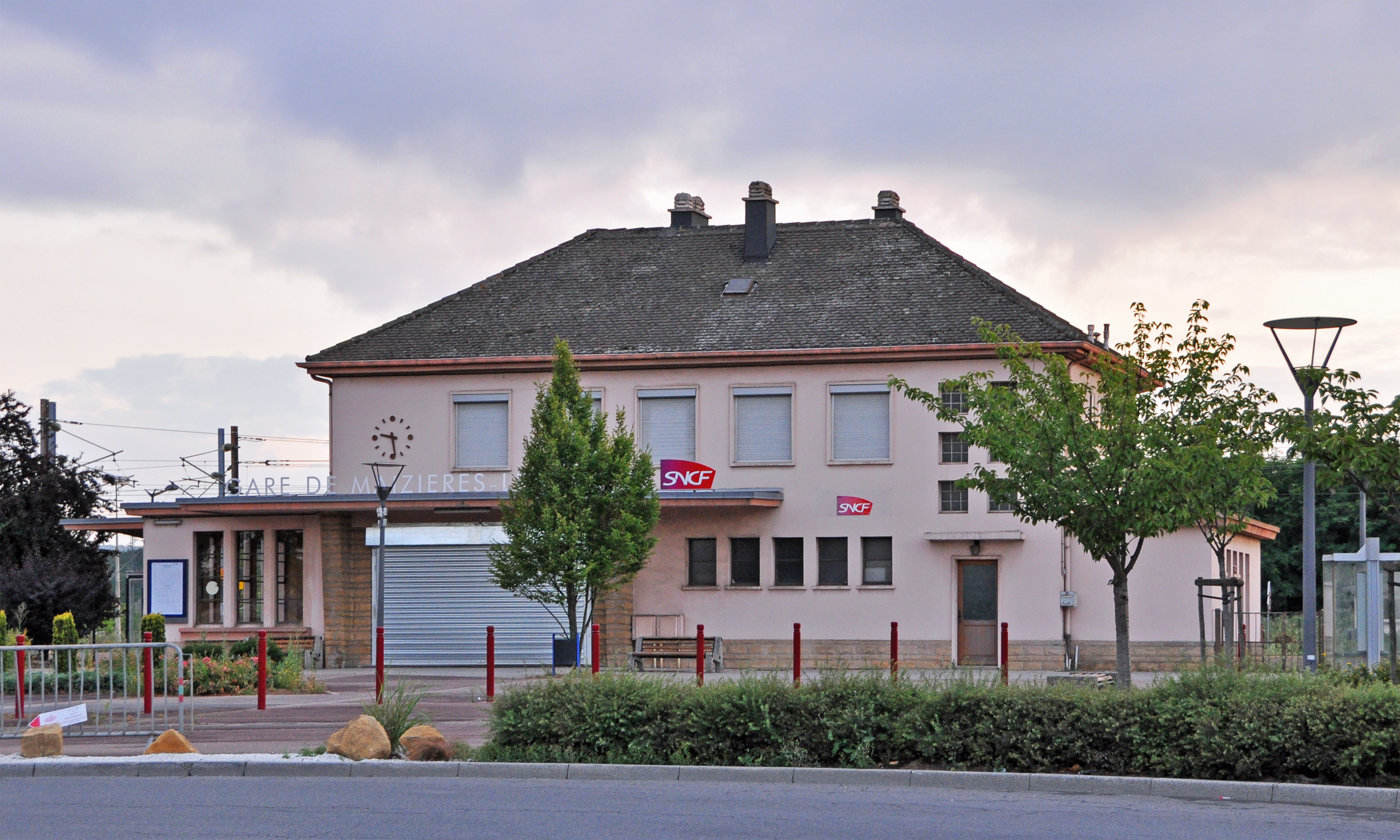 Maizières-lès-Metz (France): train station